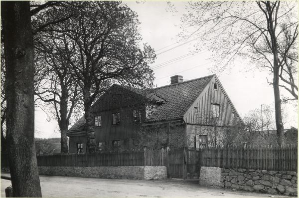 Lilla Katrinelund, a mansion in Gothenburg, Sweden